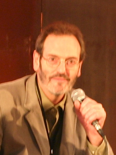 Robert Holdstock being interviewed at the 2004 Utopiales science fiction festival in Nantes, France. Picture taken by me.